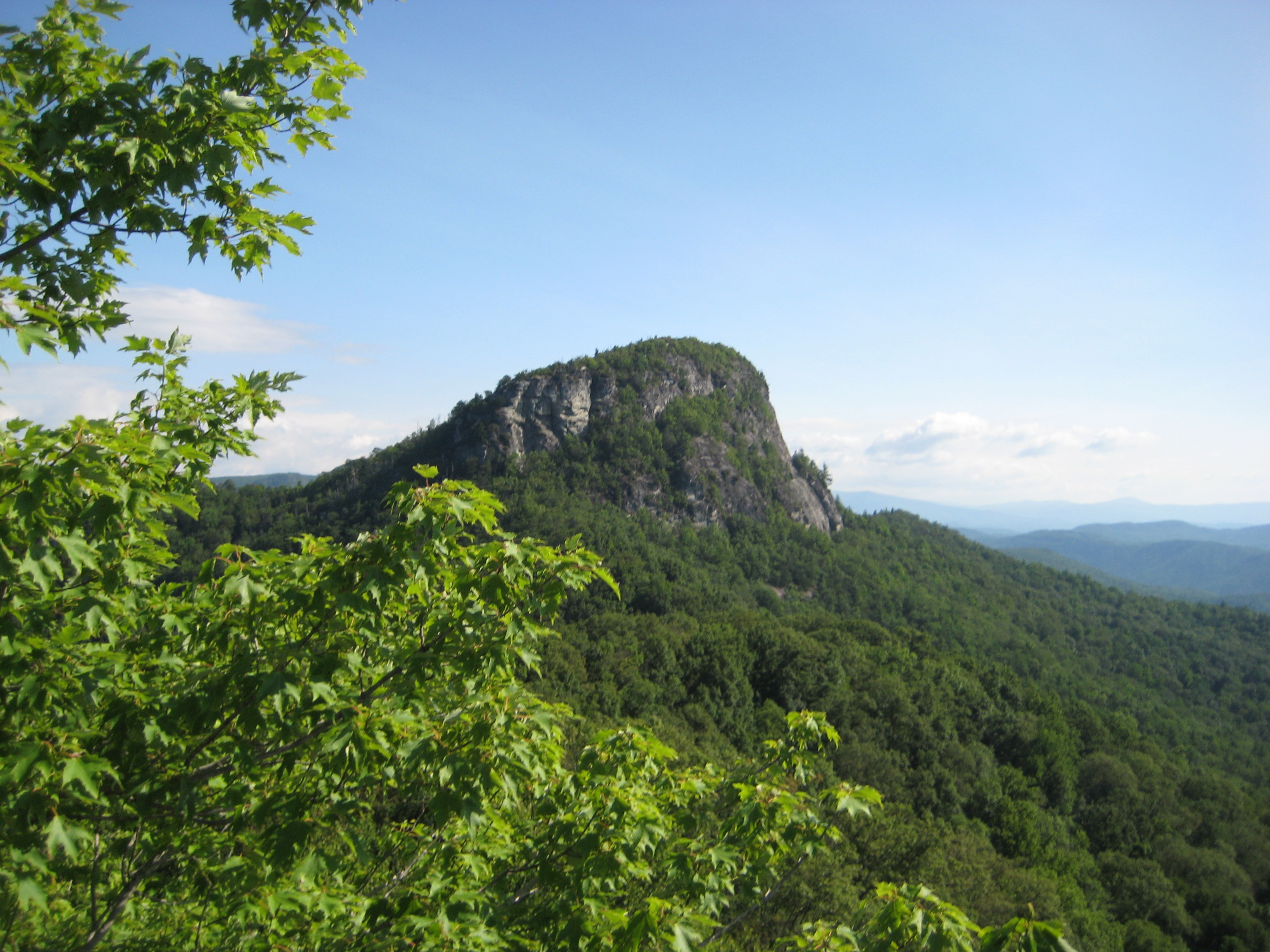 Table Rock Mountain, as seen from the Chimneys. Linville Gorge Wilderness, Pisgah National Forest, North Carolina